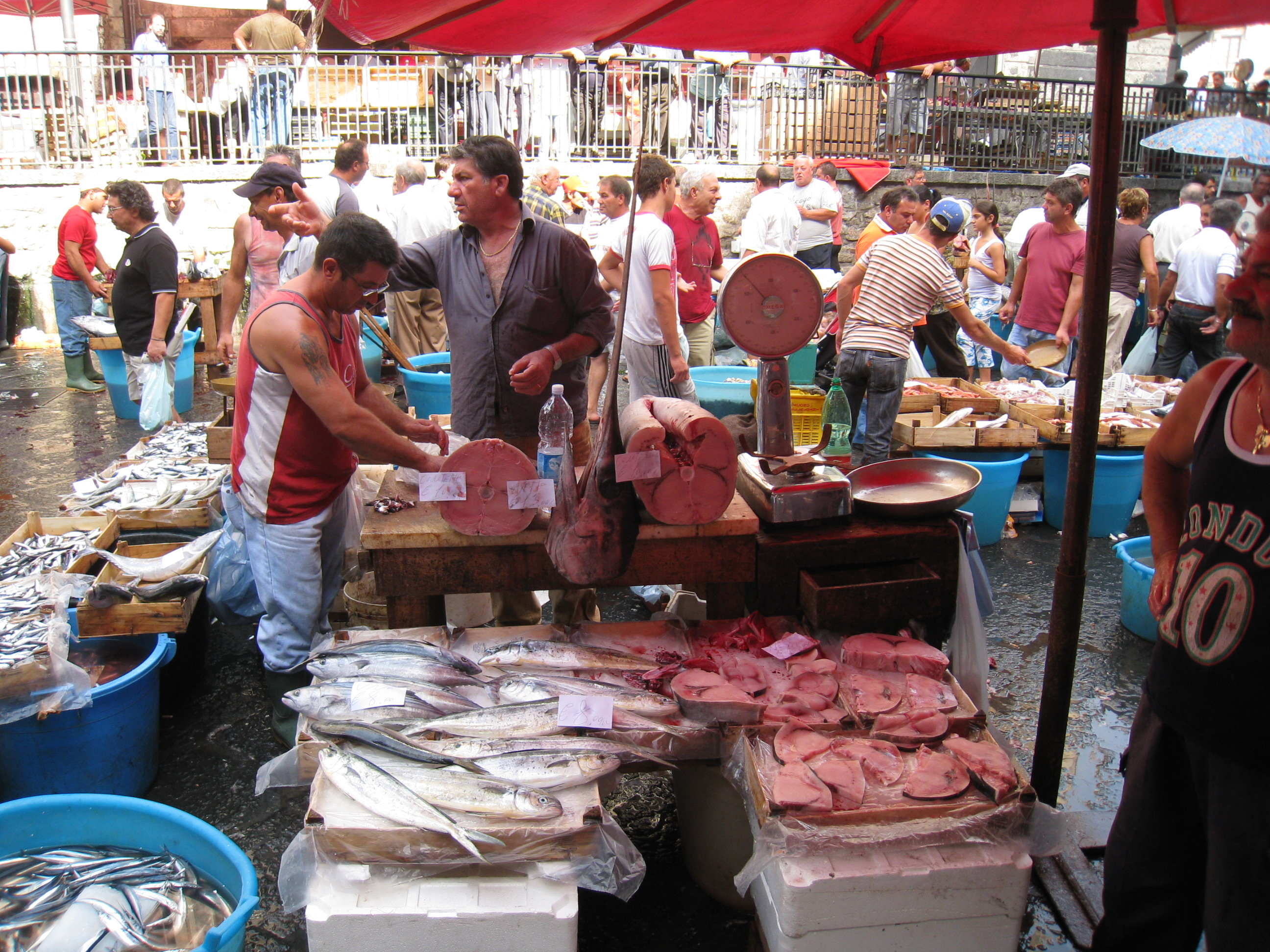 Fish Market in Cantania, Sicily